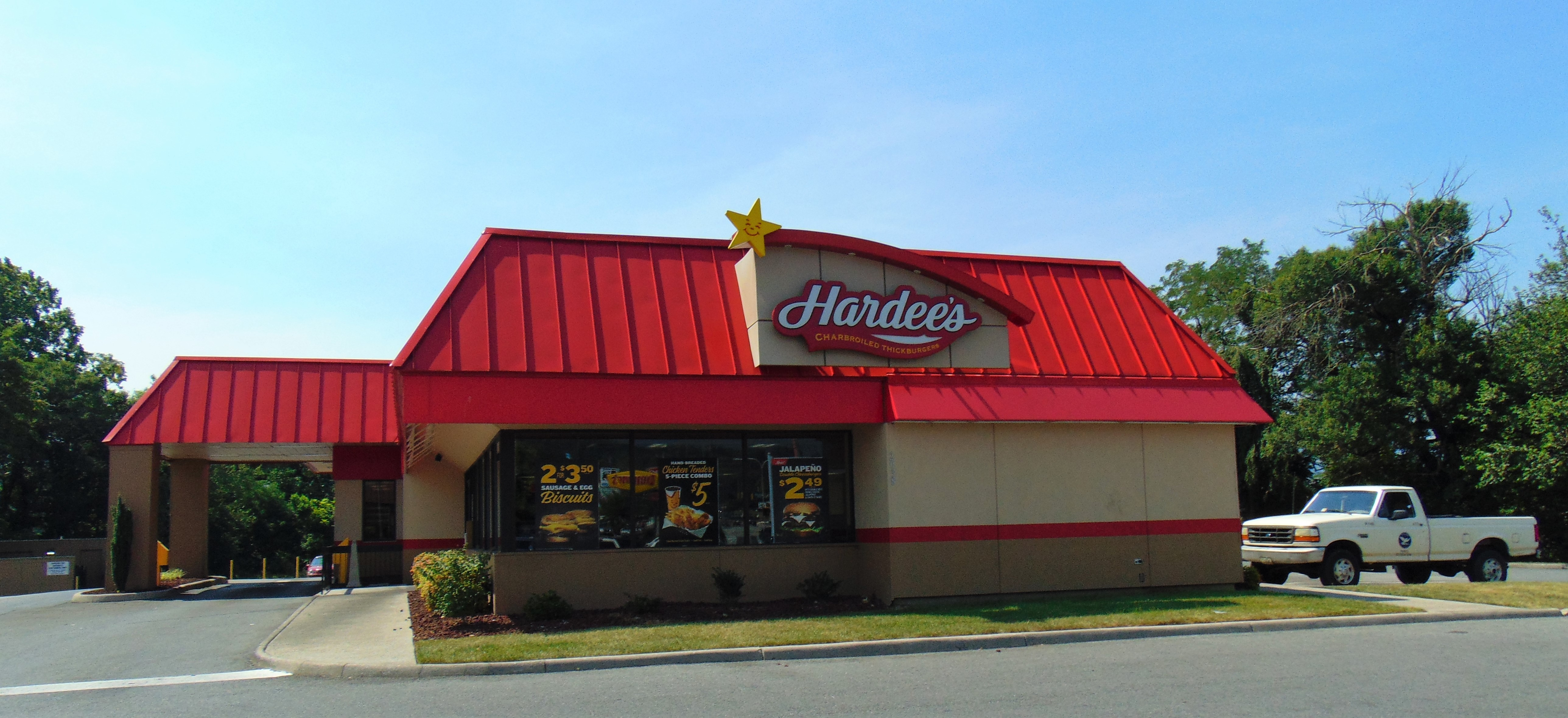 I ran into this Hardee's while going up the country in Salem, Virginia